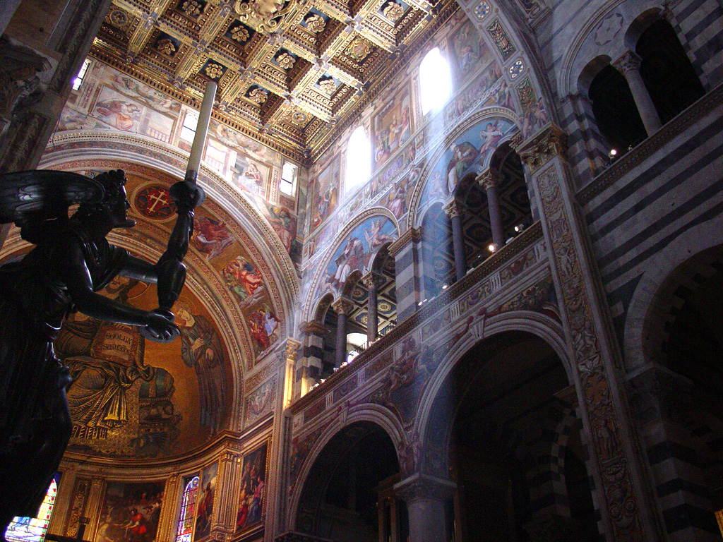 A photo of the inside of Pisa's Duomo